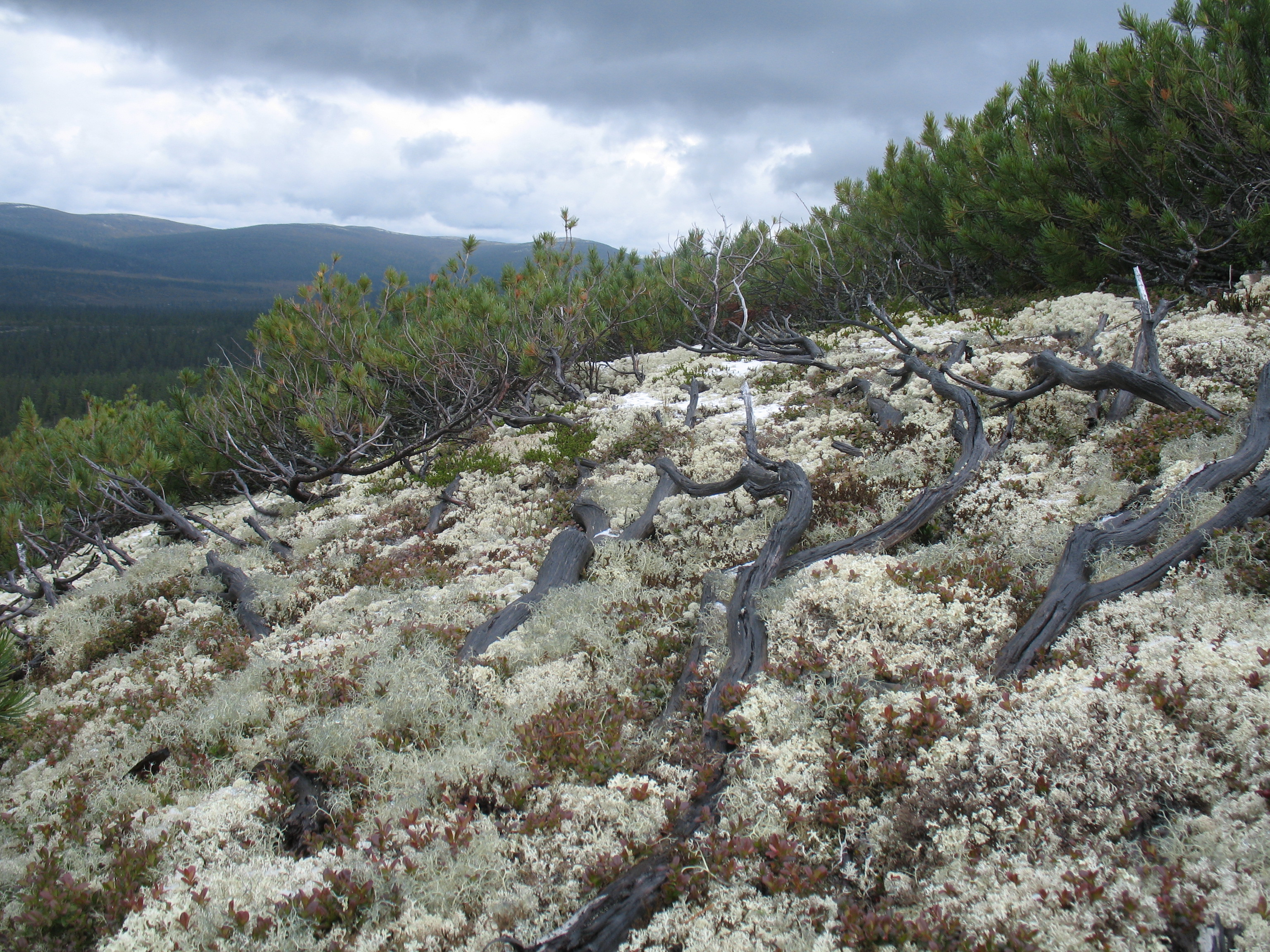 Pine thickets and a carpet of reindeer lichen in the Dovyren Highlands of the Severo-Baykalsky District of Buryatia. Eastern Siberia.